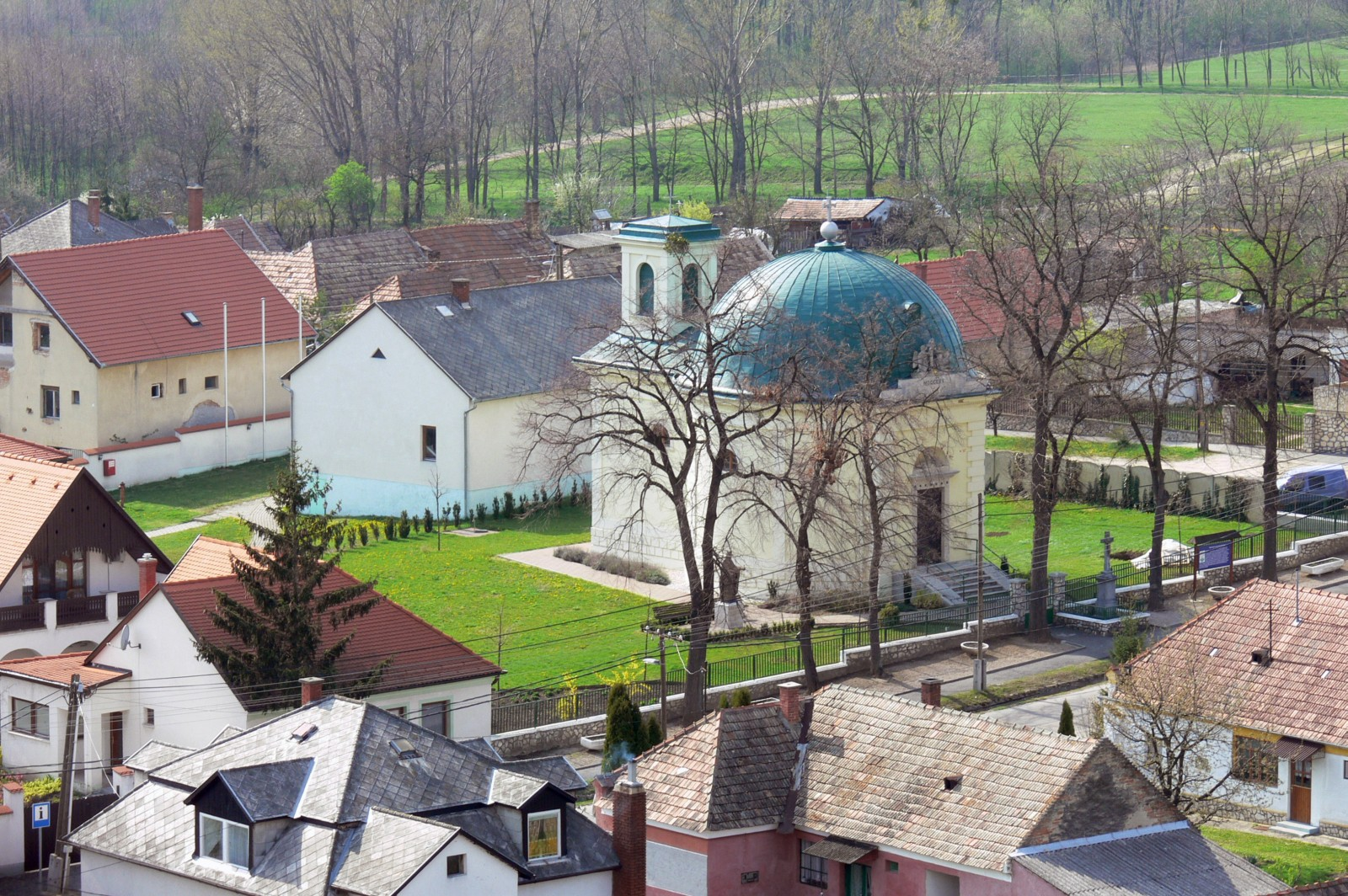 Döbrönte church from the castle ruin